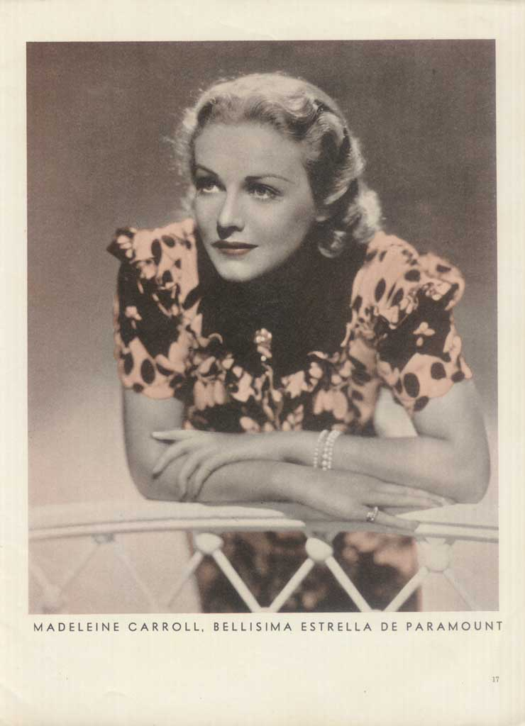 Publicity photo of Madeleine Carroll for Argentinean Magazine. (Printed in USA)